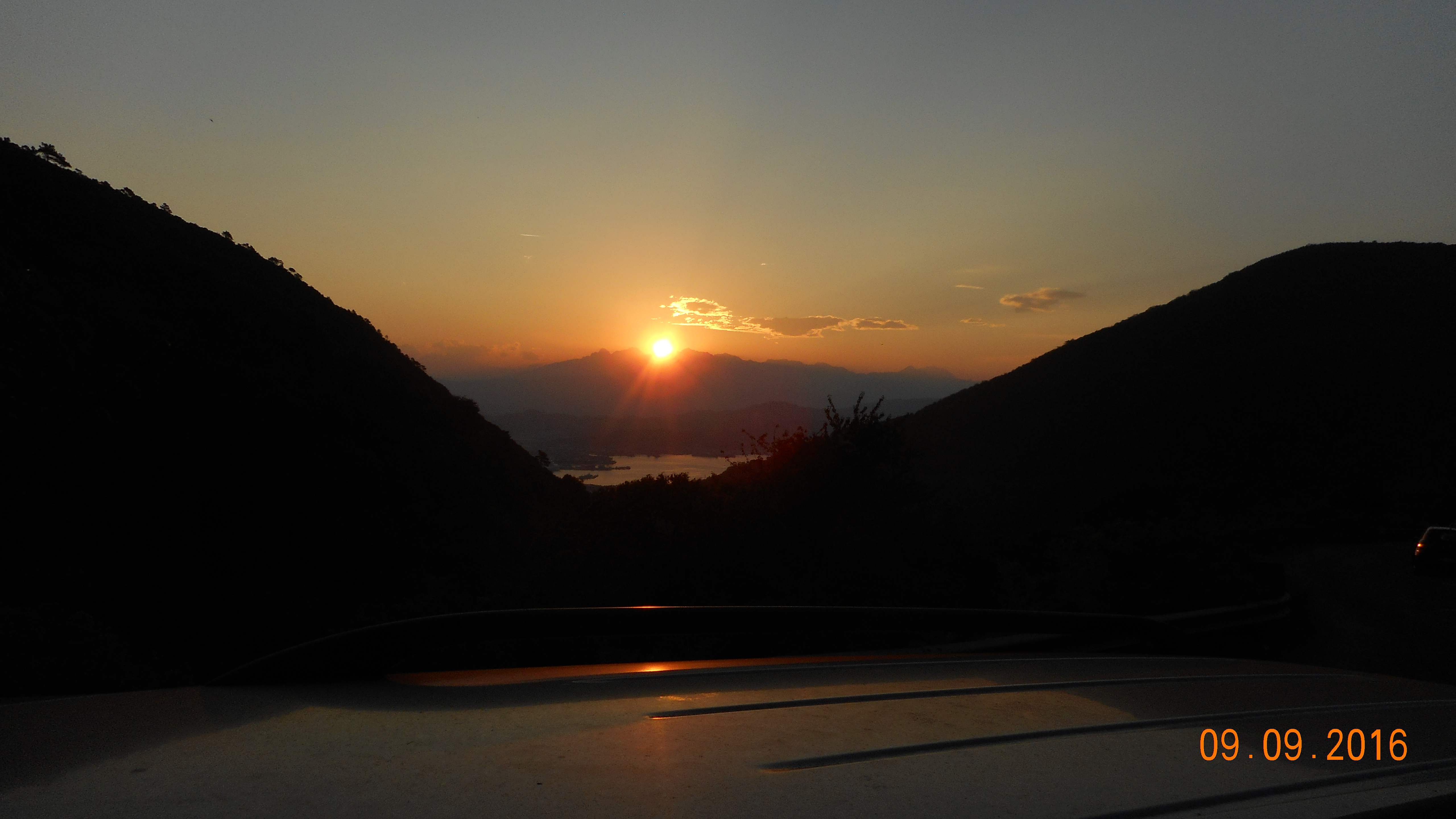 dawn from Alta Via delle 5 Terre can beenseen La Spezia Gulf and back Alpi Apuane